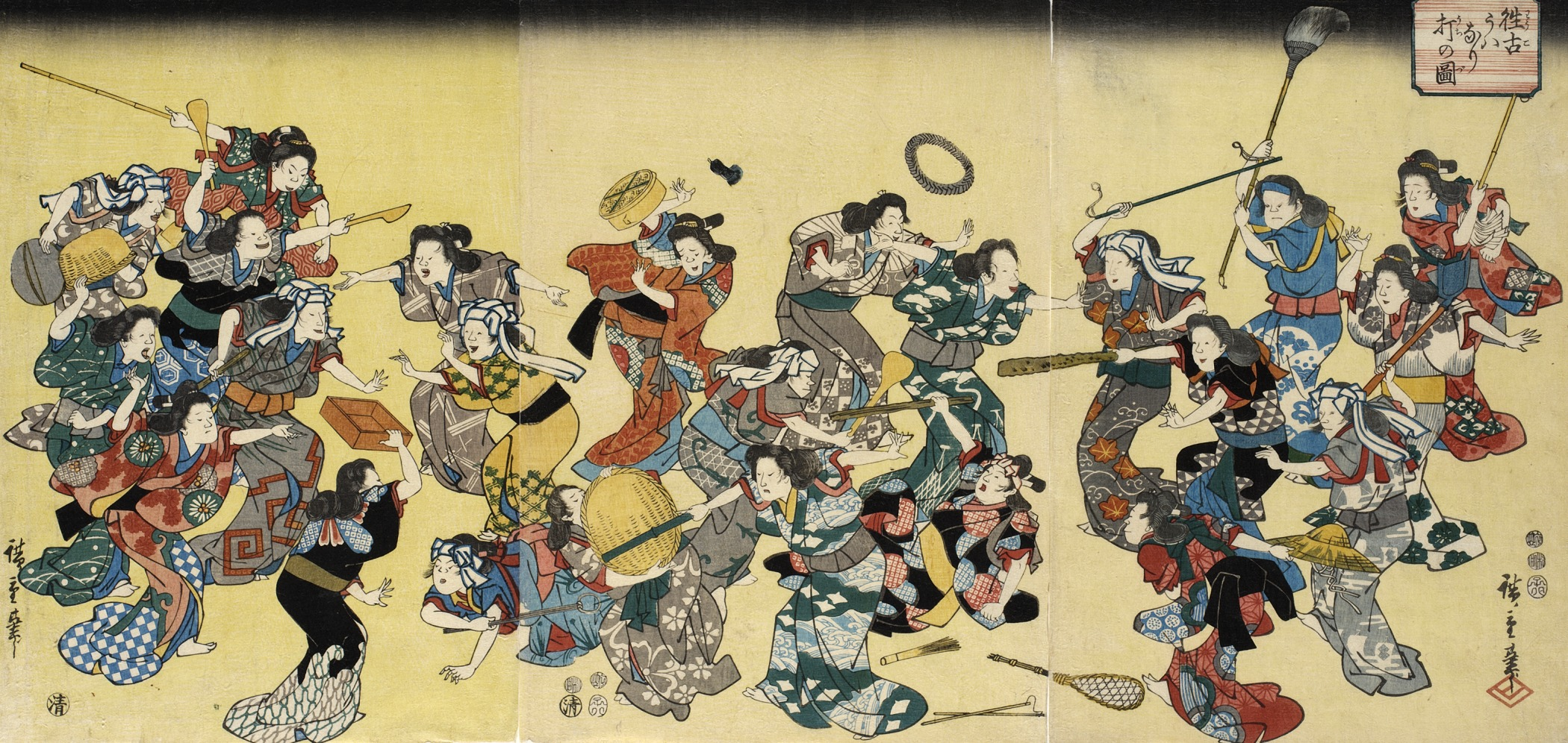 Japan, 1852 Prints; woodcuts Triptych; color woodblock prints a) Right image: 14 1/16 x 9 13/16 in. (35.72 x 24.92 cm); a) Right sheet: 14 1/16 x 9 13/16 in. (35.72 x 24.92 cm); b) Center image: 14 1/16 x 9 13/16 in. (35.72 x 24.92 cm); b) Center sheet: 14 1/16 x 9 13/16 in. (35.72 x 24.92 cm); c) Left image: 13 15/16 x 9 3/4 in. (35.4 x 24.77 cm); c) Left sheet: 13 15/16 x 9 3/4 in. (35.4 x 24.77 cm) Gift of Chuck Bowdlear, Ph.D., and John Borozan, M.A. (M.2000.105.38a-c) Japanese Art